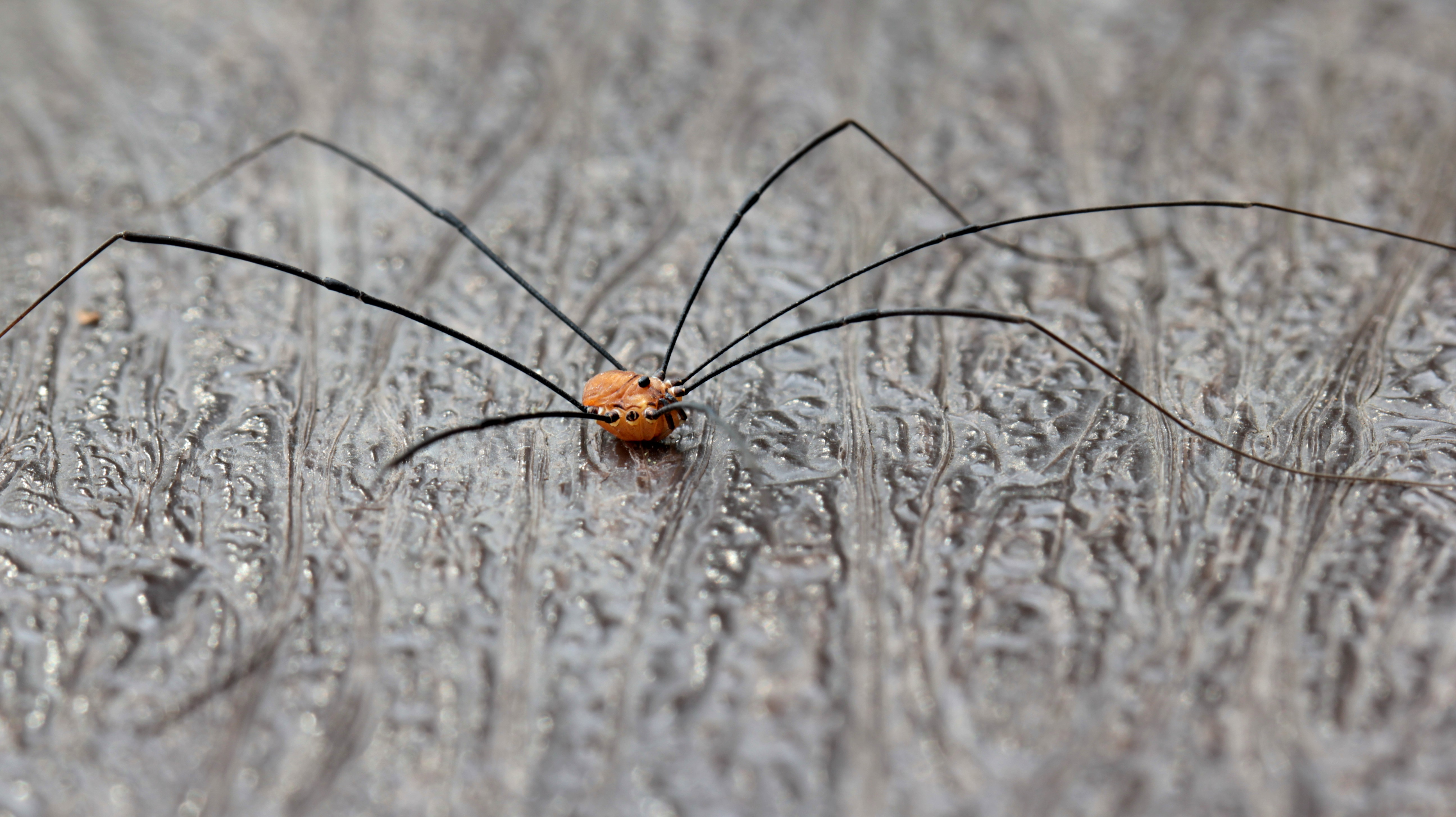 A male Leiobunum rotundum Harvestman, taken in Trent Park, Enfield, UK